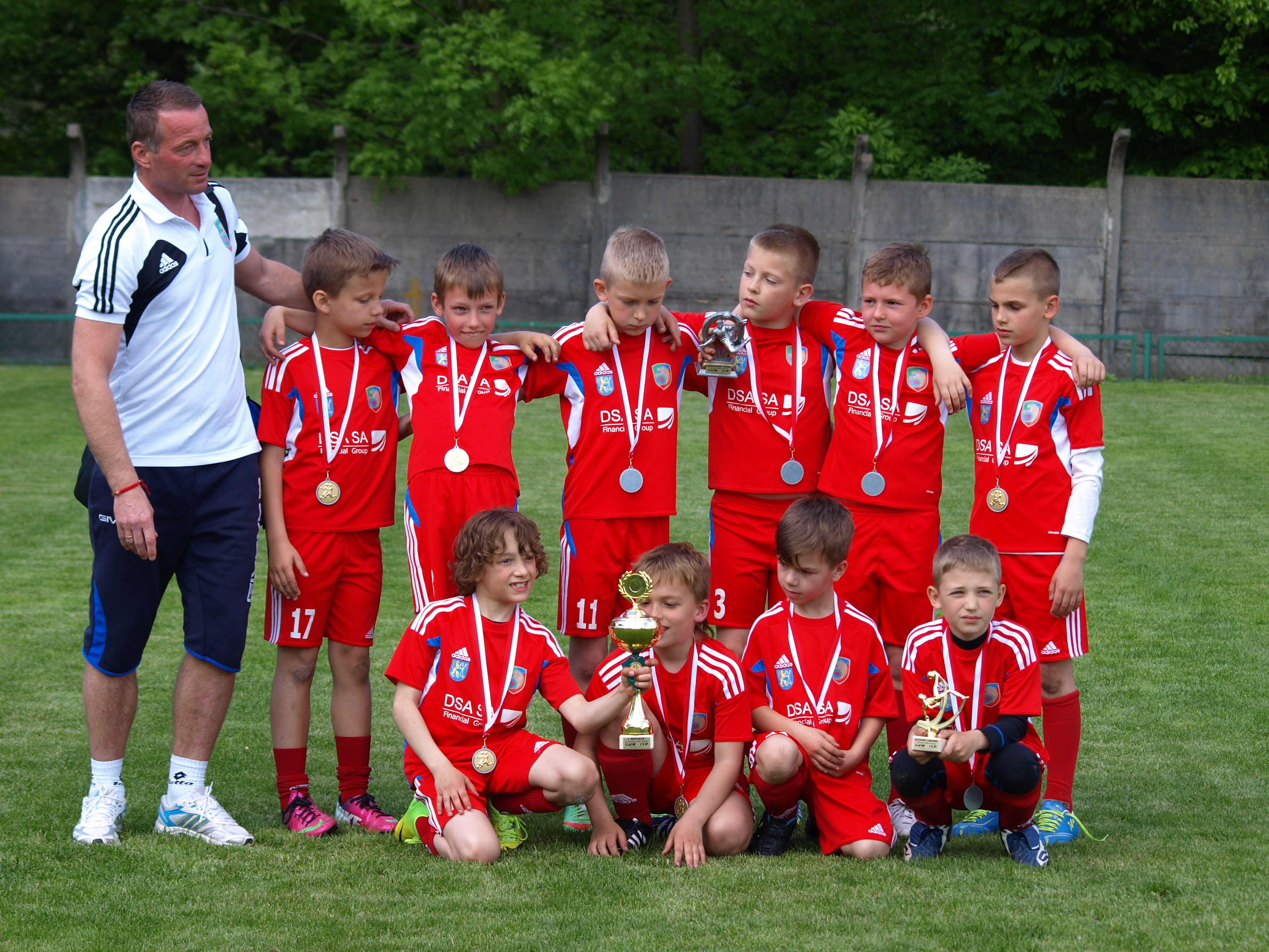 Wojciech Górski - Coach in the Football Academy Miedz Legnica (Poland)